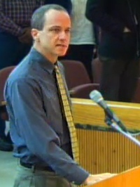 David Suhor speaks before the Pensacola City Council about invocations